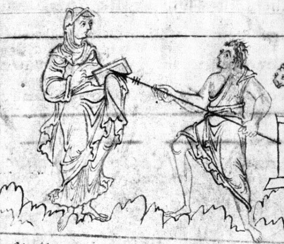 Psychomachia of Prudentius London, Bristish Library MS Cotton Cleopatra C. VIII, Canterbury, Christ Church, Illuminierte Handschrift des 8. Jh.s n. Chr.